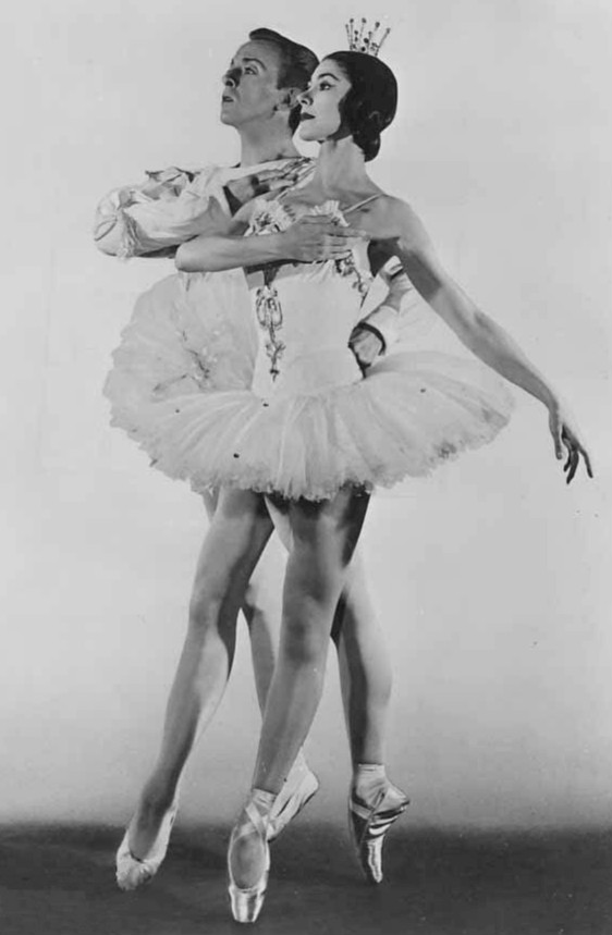 Photo of Margot Fonteyn and Robert Helpmann in Sleeping Beauty during a US tour for Sadler's Wells Ballet.